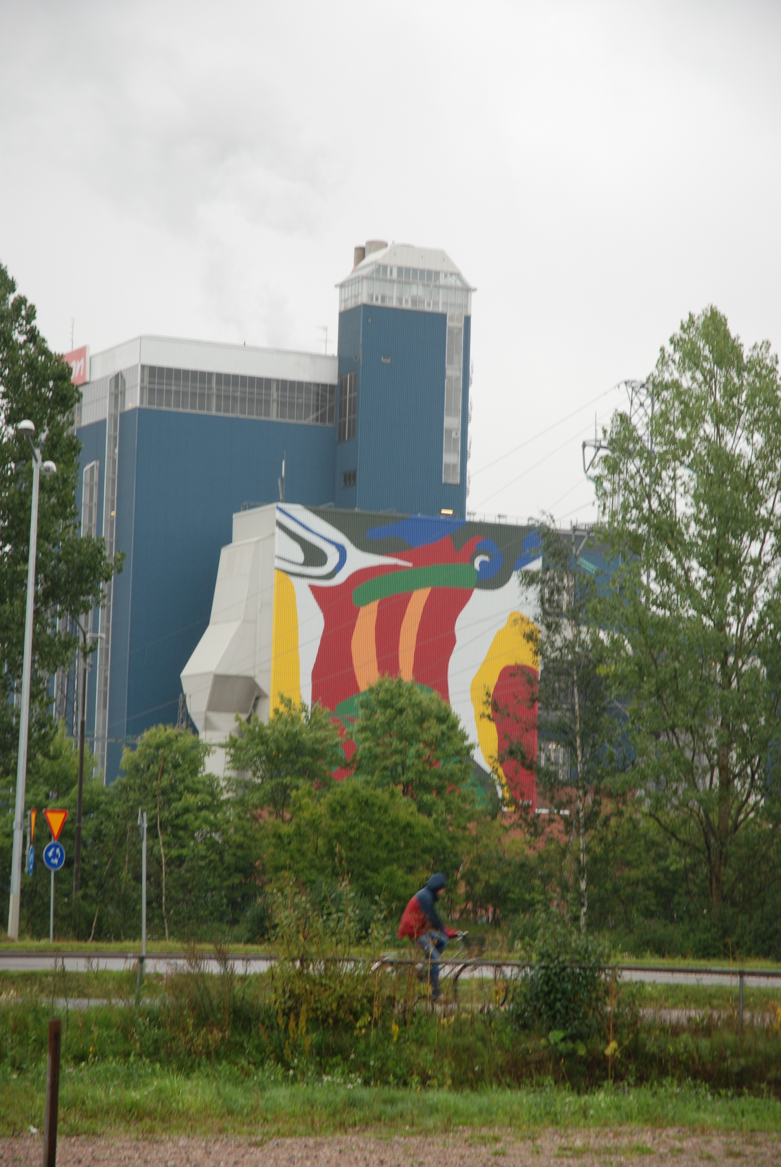 Bengt Lindströms målning på Åbyverket i Örebro, detalj